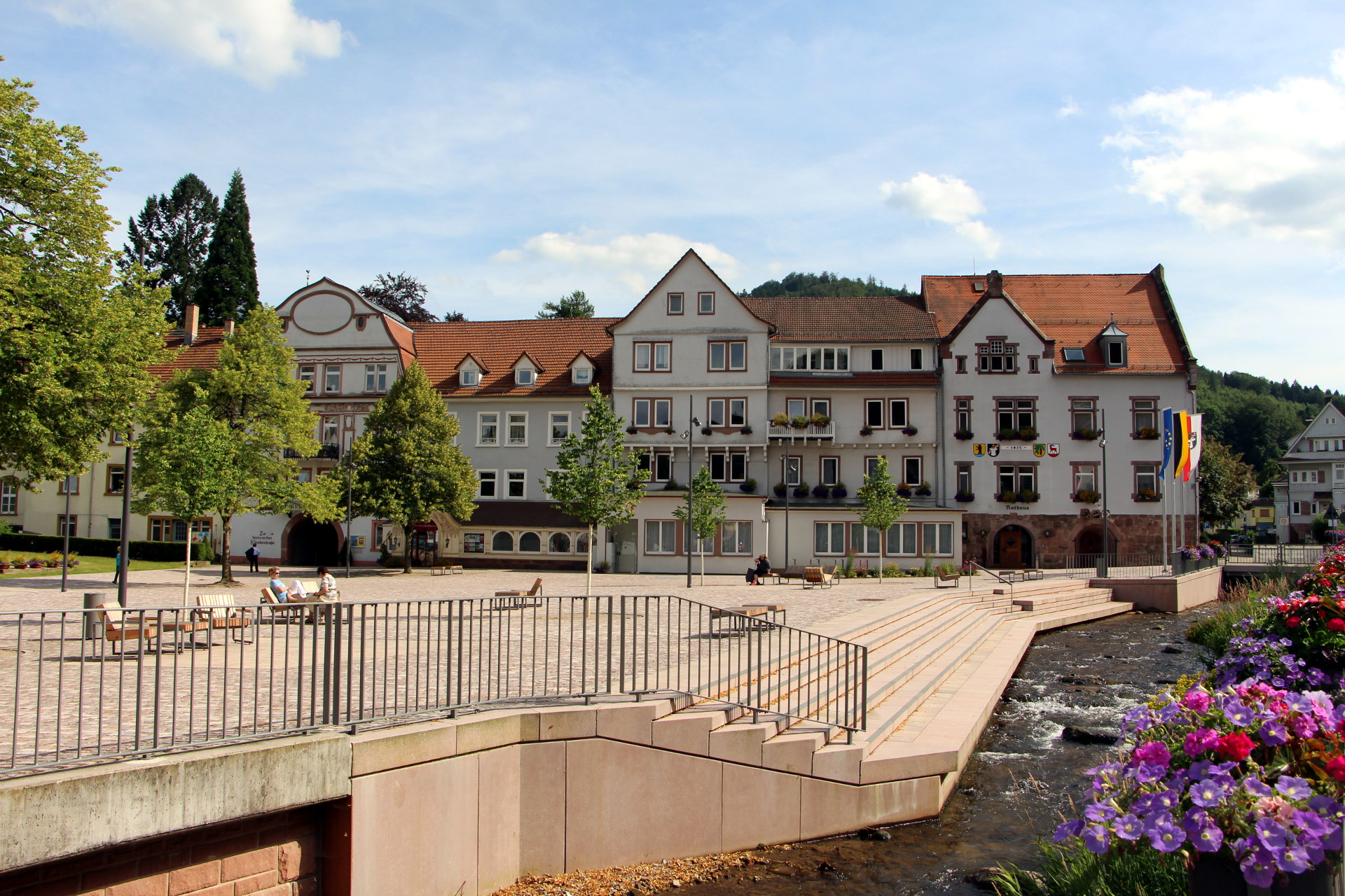 This picture shows the new forecourt design of the Bad Herrenalb town hall. On the right you see the small river Alb in his recultivated shape. All this was done due to the Gartenschau 2017. The whole townscape has been changed sustainable because of this big event between 2013 and 2017.